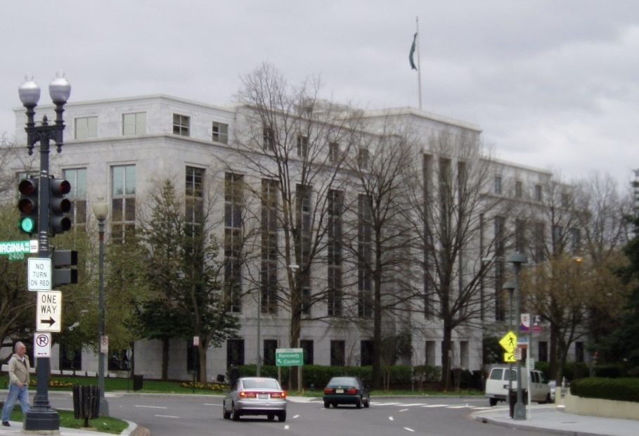 Embassy of Saudi Arabia, Washington, D.C.